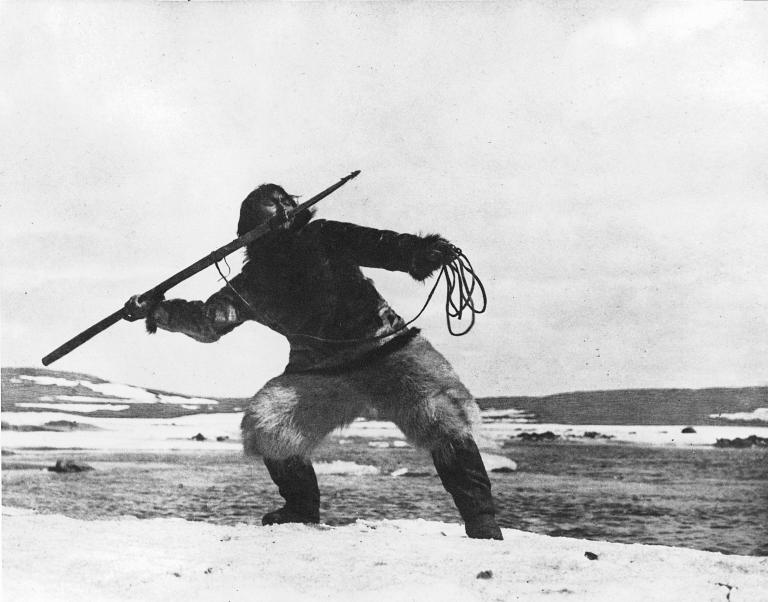 Print, The Harpooner, 1920-1929, Robert J. Flaherty, Photogravure on paper, 50.4 x 33.1 cm